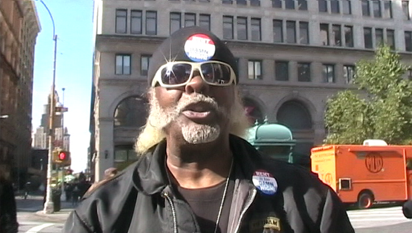 Photo of Jimmy McMillan promoting his Rent Is Too Damn High party, the day before the election.